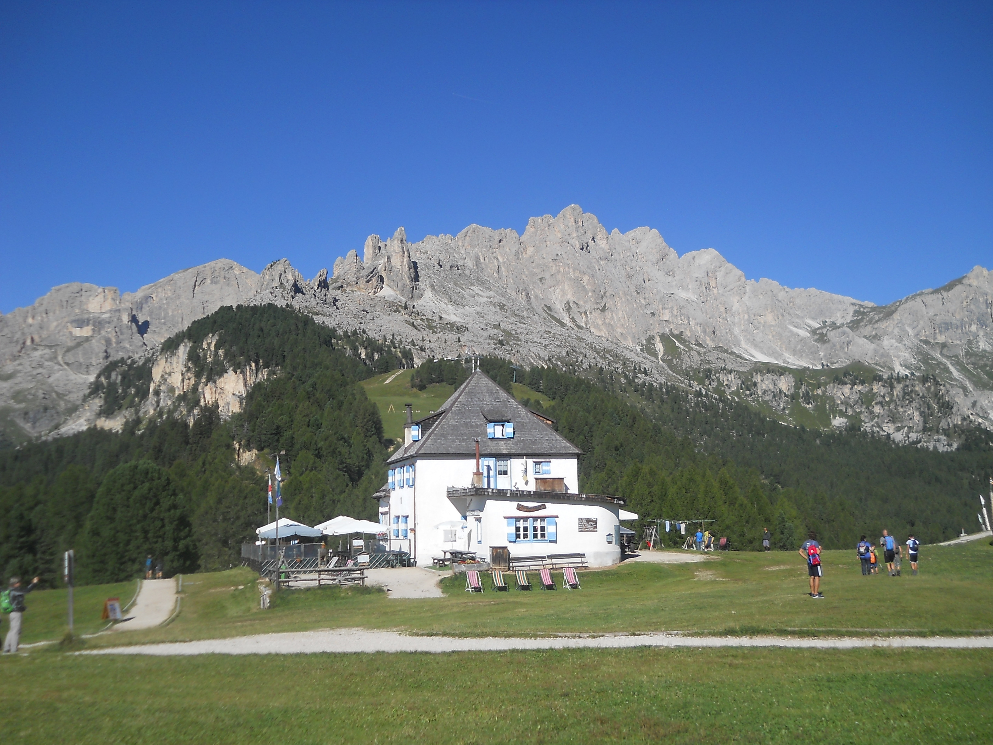 Rosengarten group, Ciampiedie refuge